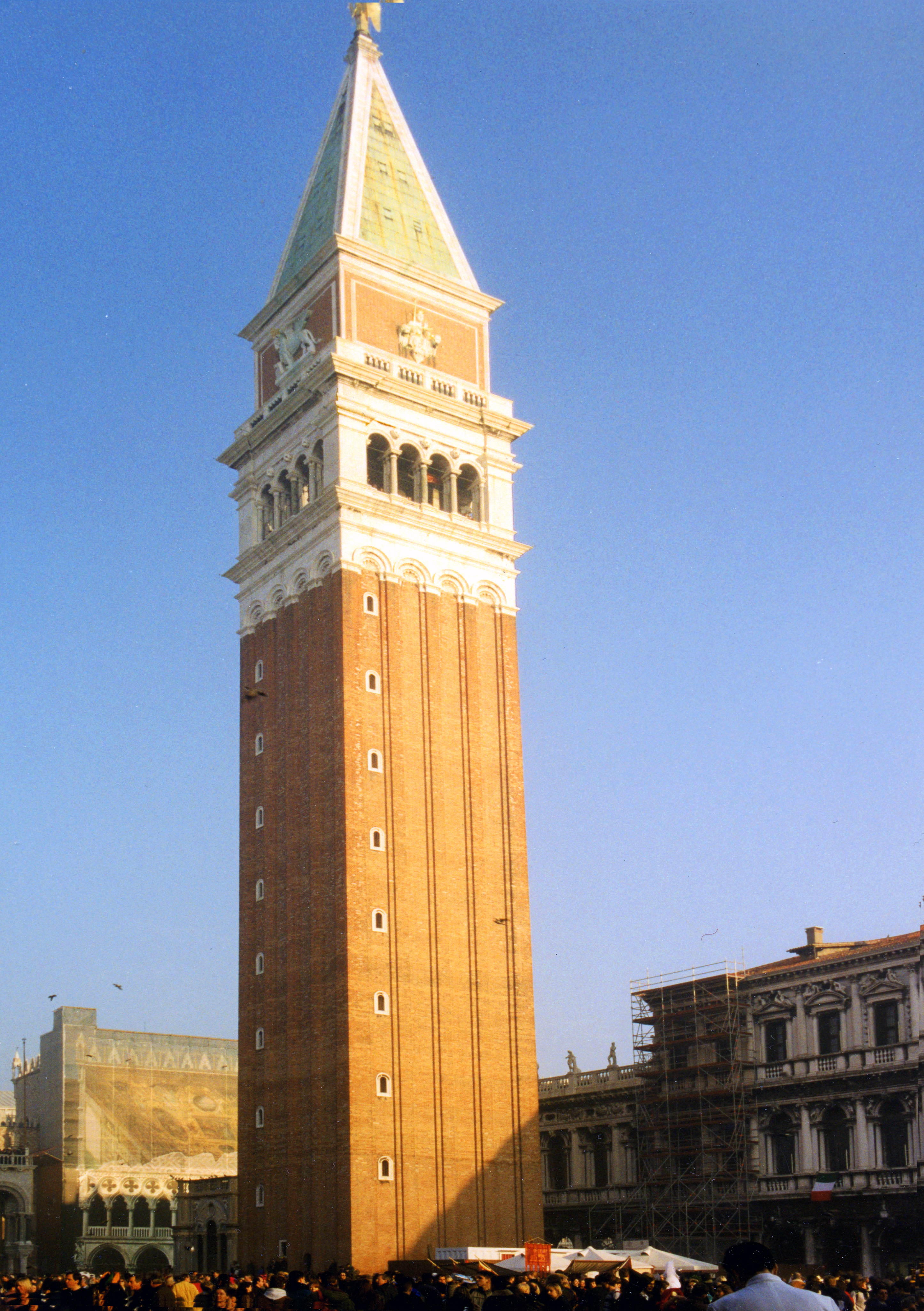 The Campanile of the church of San Marco (St Mark) in Venice, west side, seen from the Piazza in brilliant sunshine during Carnival, February 1998